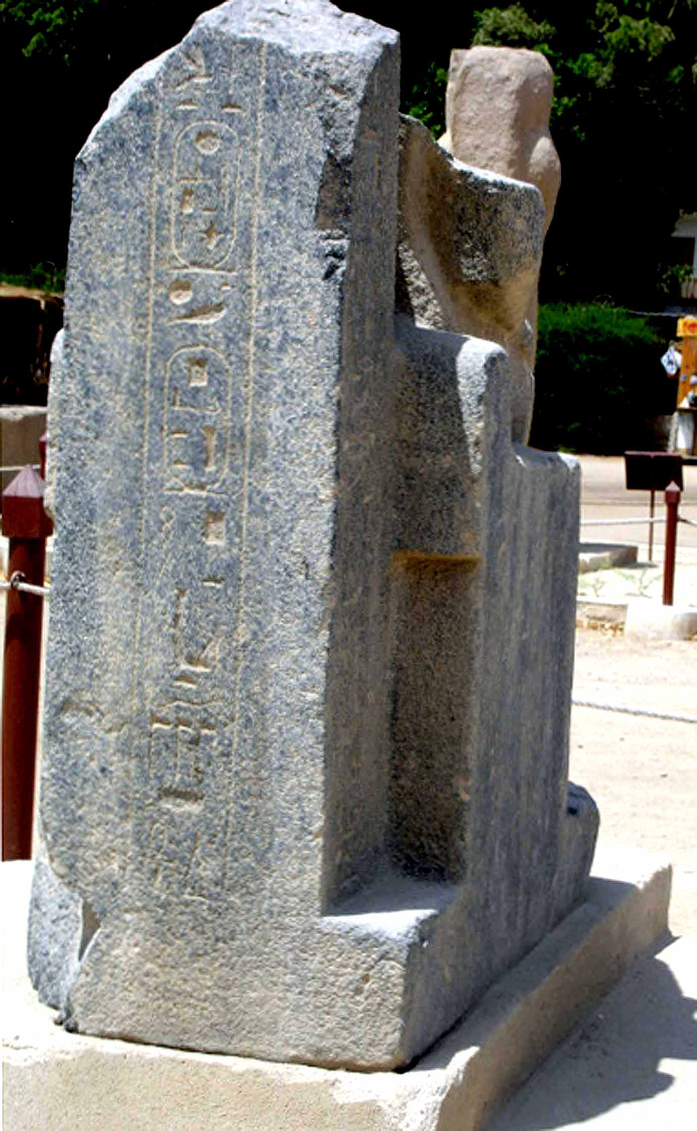 Basalt pillar and lower part of a statue of Sehetepib[en]re Pedubast II, Memphis.